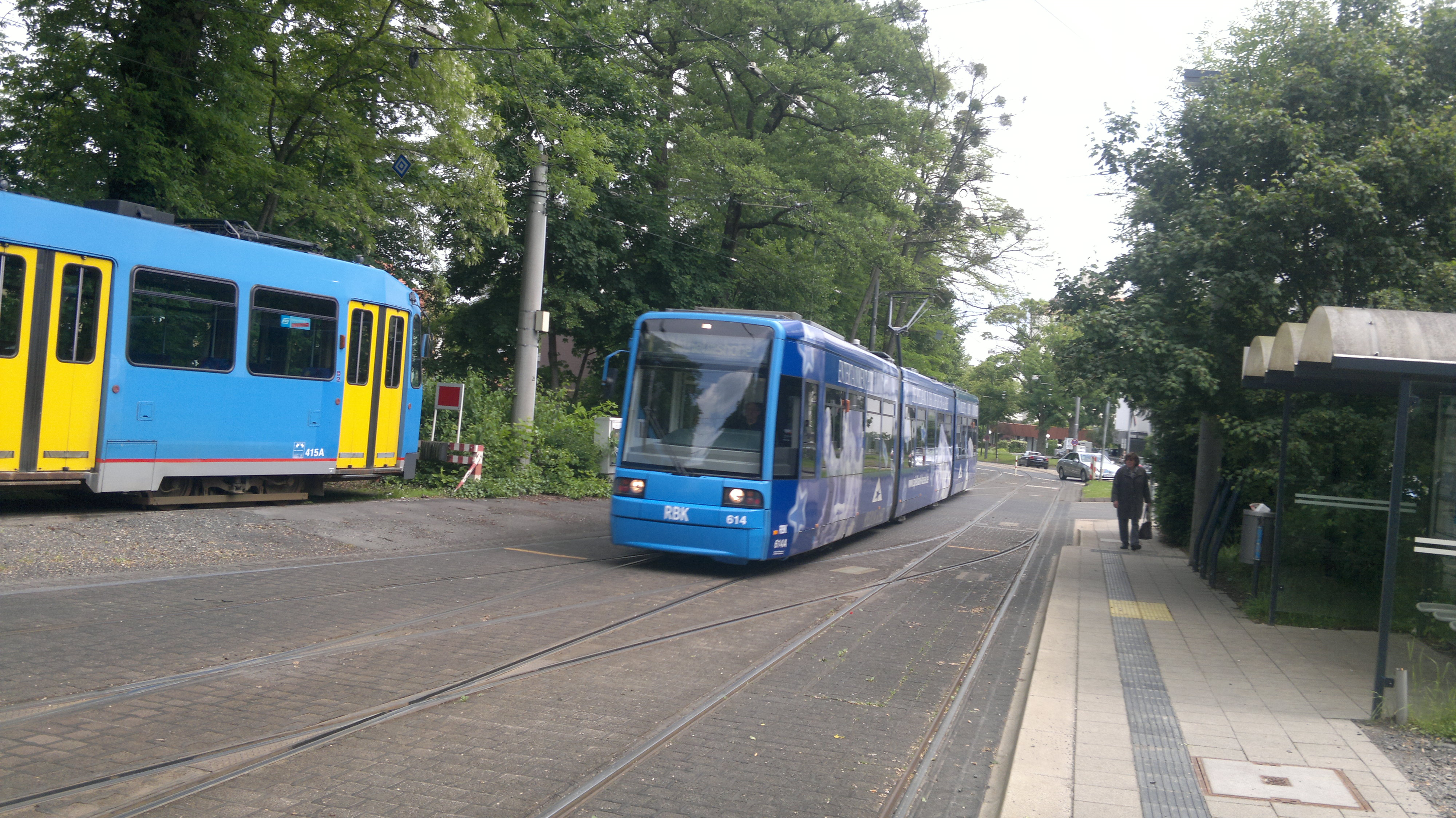 Straßenbahn Linie 1